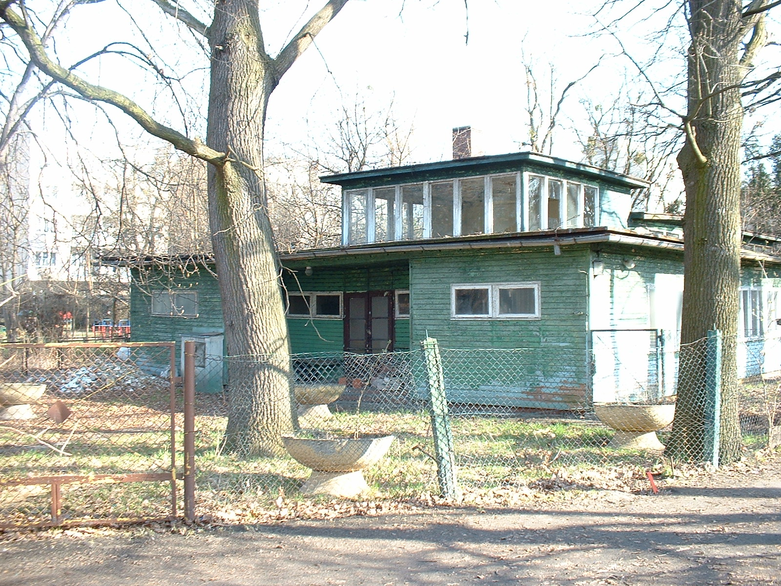 Wrocław, WUWA, Kindergarten (house No. 2) by Paul Heim & Albert Kempter. Now unused and badly damaged by weather conditions.